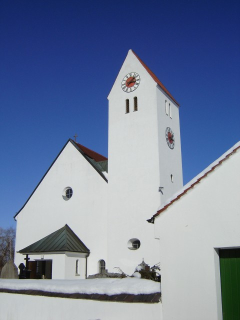 Church Mariä Himmelfahrt of Puchheim Ort (disctrict of Fürstenfeldbruck, Bavaria, Germany)